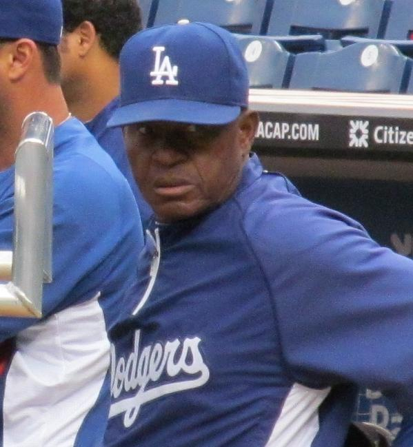 Manny Mota in Philadelphia on 2012 06 05